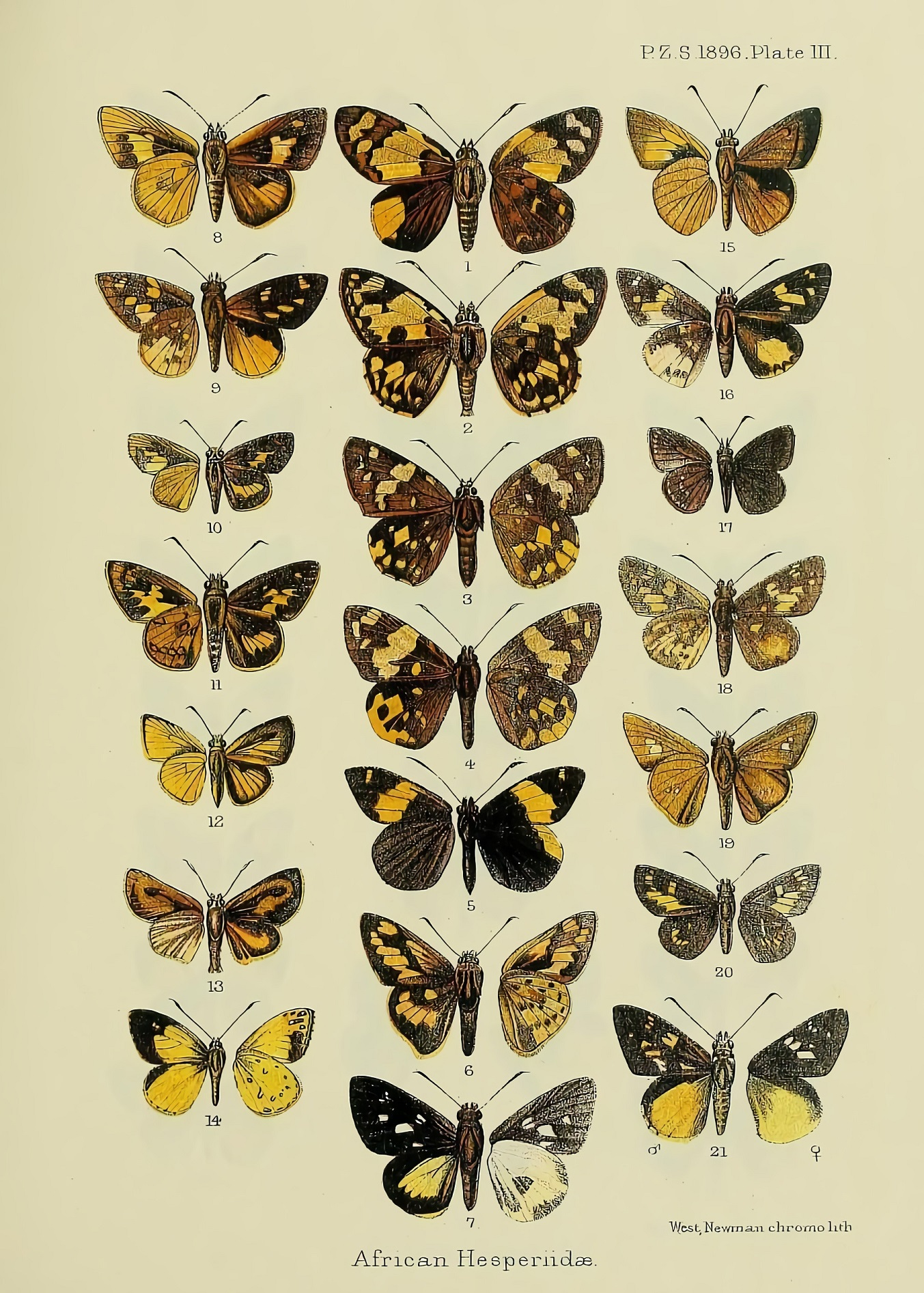 William Jacob Holland, 1896 A Preliminary Revision and Synonymic Catalogue of the Hesperiidae of Africa and the adjacent Islands, with Descriptions of some apparently new species Proc. zool. Soc. Lond. 1896 (1) : 2-107, pl. 1-5 Plate 3 text and remaining text figure 1 Celaenorrhinus boadicea (Hewitson, 1877) male figure 2 Celaenorrhinus meditrina (Hewitson, 1877) figure 3 Celaenorrhinus biseriata synonym for Celaenorrhinus galenus biseriata (Butler, 1888) male figure 4 Celaenorrhinus maculata Hampson, 1891 synonym for Celaenorrhinus galenus (Fabricius, 1793) male figure 5 Celaenorrhinus chrysoglossa(Mabille, 1891) male figure 6 Padraona zeno synonym for Zenonia zeno (Trimen, 1864) male figure 7 Pardaleodes xanthias synonym for Paronymus xanthias (Mabille, 1891) male figure 8 Rhabdomantis galatia(Hewitson, 1868) female figure 9 Pardaleodes xanthopeplus Holland, 1892 male figure 10 lapsus for Teniorhinus watsoni Holland, 1892 figure 11 Oxypalpus annulifer synonym for Acada annulifer (Holland, 1892) male figure 12 Oxypalpus ignita synonym for Teniorhinus ignita (Mabille, 1877) figure 13 Oxypalpus ruso synonym for Teniorhinus harona (Westwood, 1881) figure 14 Ceratrichia flava Hewitson, 1878 male figure 15 Rhabdomantis galatia (Hewitson, 1868) male figure 16 Pardaleodes xanthopeplus Holland, 1892 female figure 17 Prosopalpus duplex Mabille, 1890 synonym for Prosopalpus debilis (Plötz, 1879) figure 18 Pardaleodes reichenowi Plötz, 1879 synonym for Pardaleodes tibullus Fabricius, 1793 female figure 19 Parnara micans Holland, 1896 synonym for Borbo micans (Holland, 1896) male figure 20 Osmodes staudingeri Holland, 1896 synonym for Xanthodisca rega (Mabille, 1890) female figure 21 Pardaleodes bule Holland, 1896 male, female